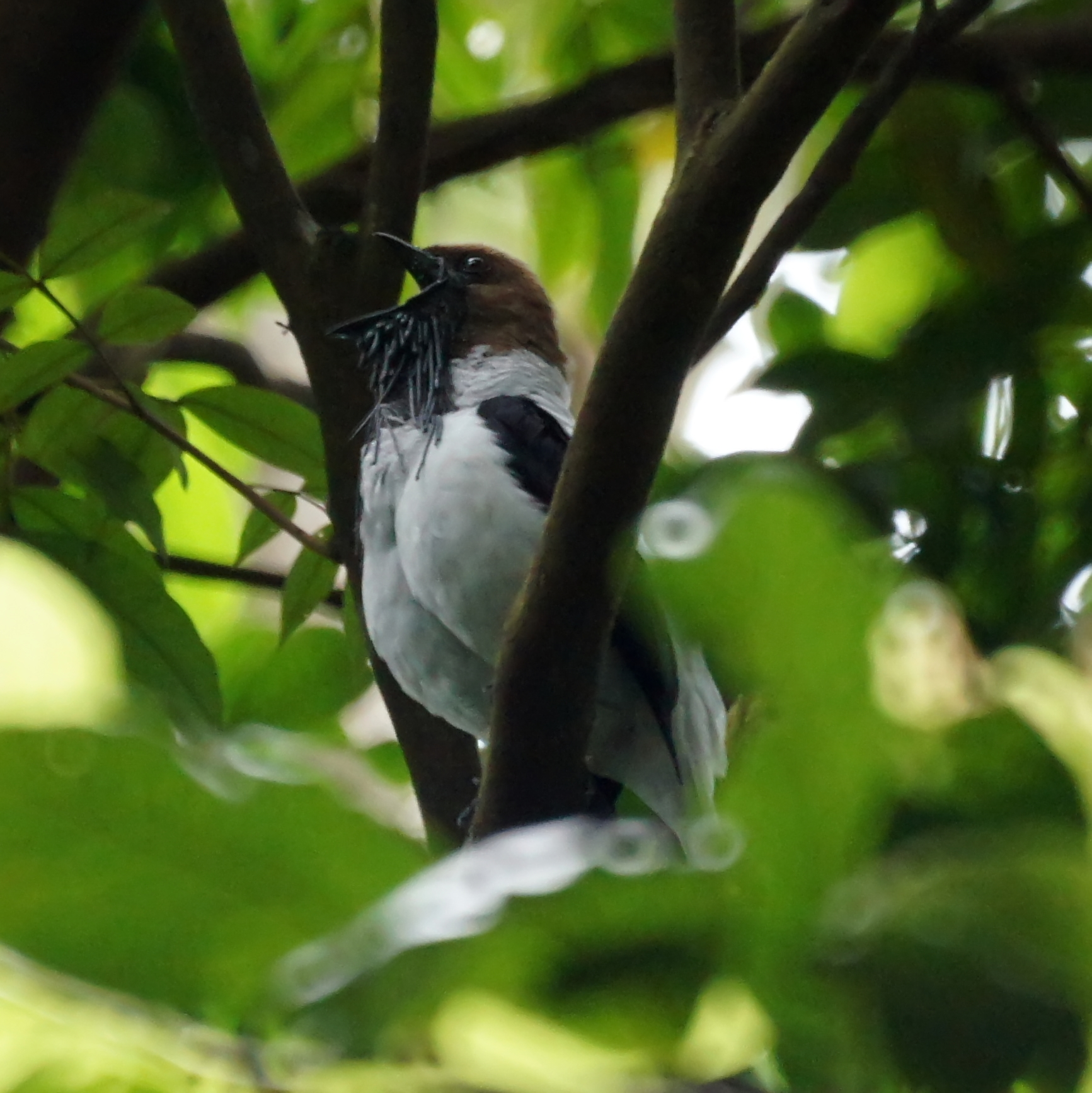 Bearded Bell Bird